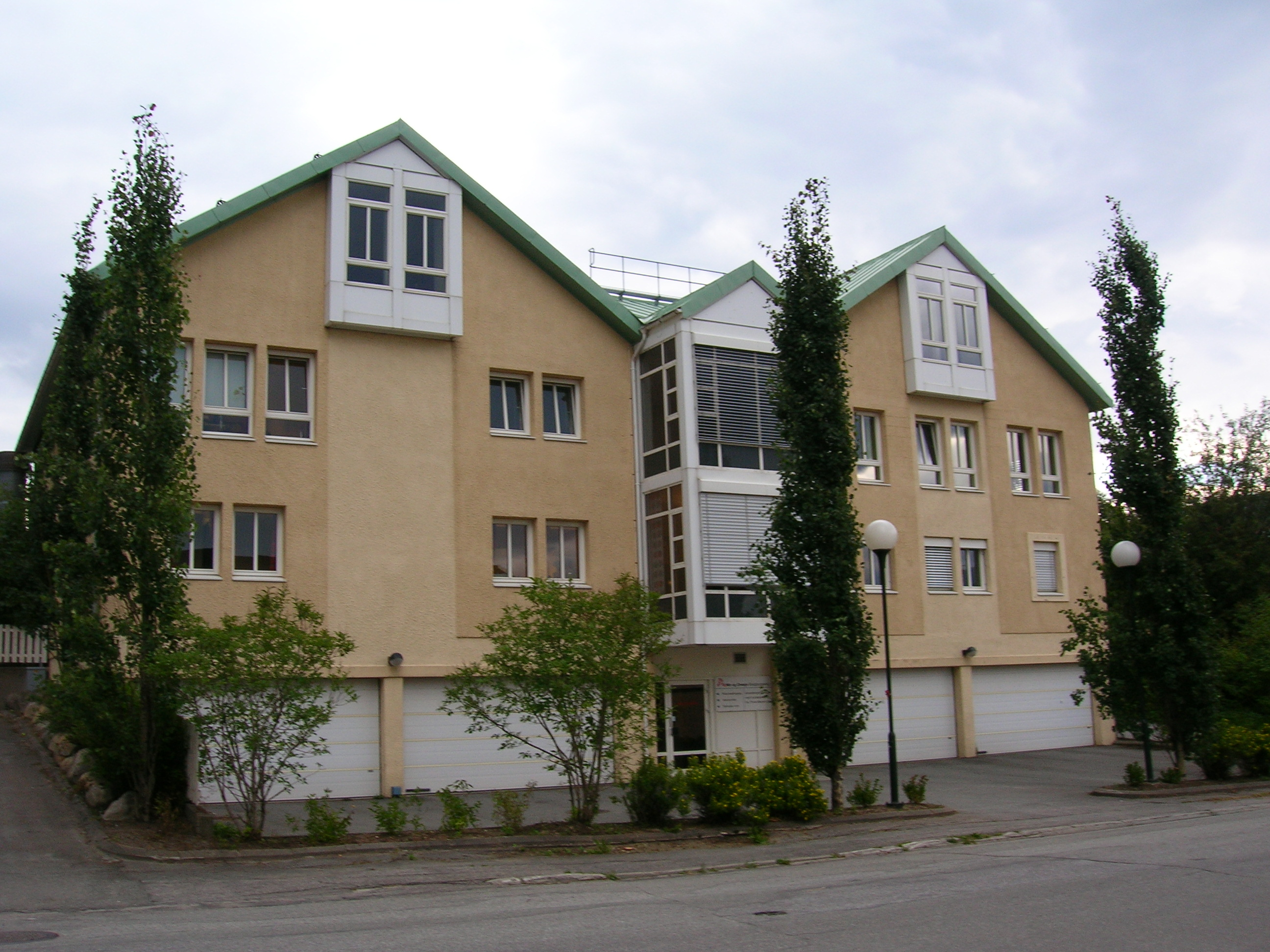 The administration building of Mo og Omegn Boligbyggelag (MOBO) in Mo i Rana. Rana municipality, county of Nordland, Norway. Photo 13 August 2007 with a Nikon Coolpix 5600 5,1 Megapixel camera.